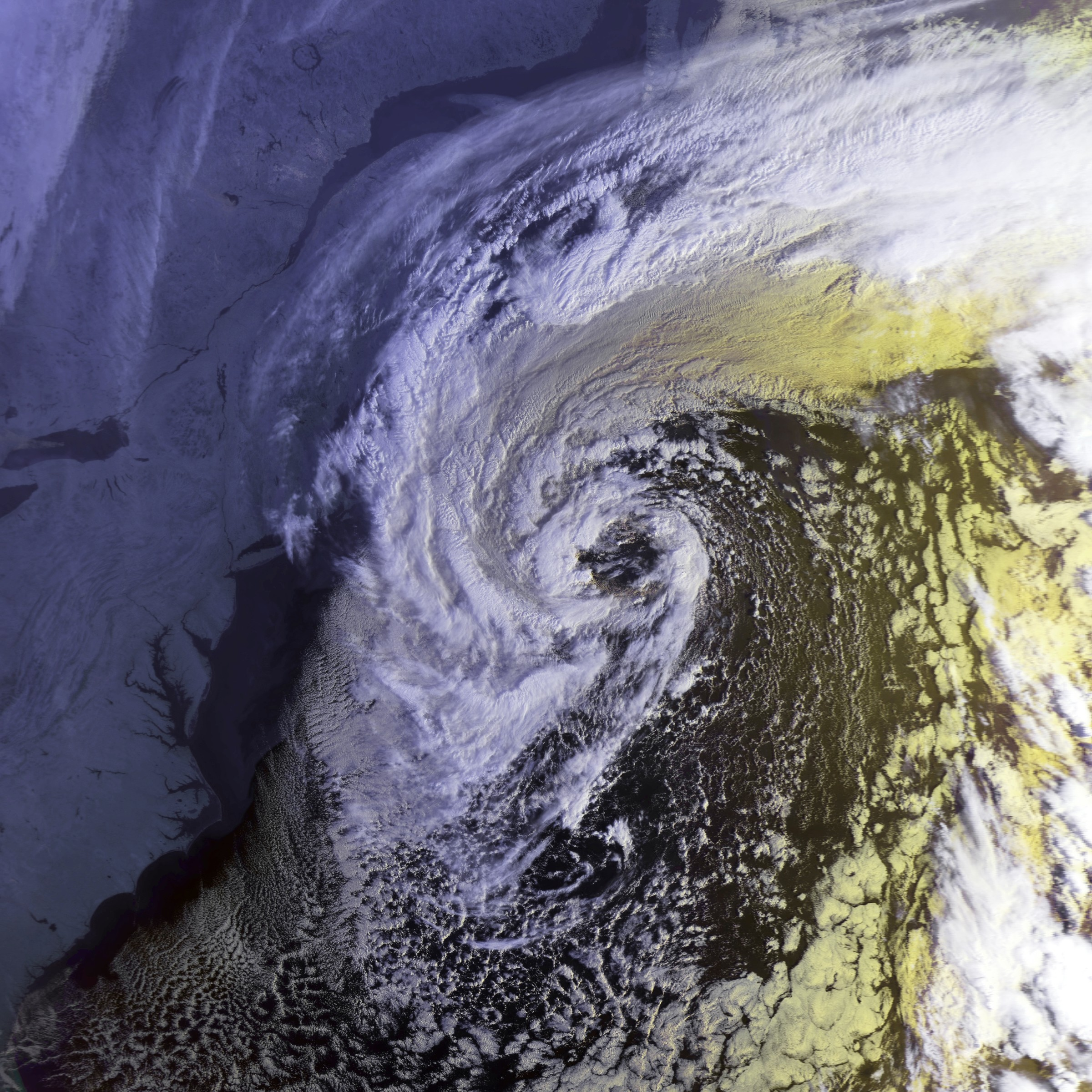 This image shows an extratropical low at peak intensity October 30 at 1226 UTC. This image was produced from data from NOAA-12, provided by NOAA.